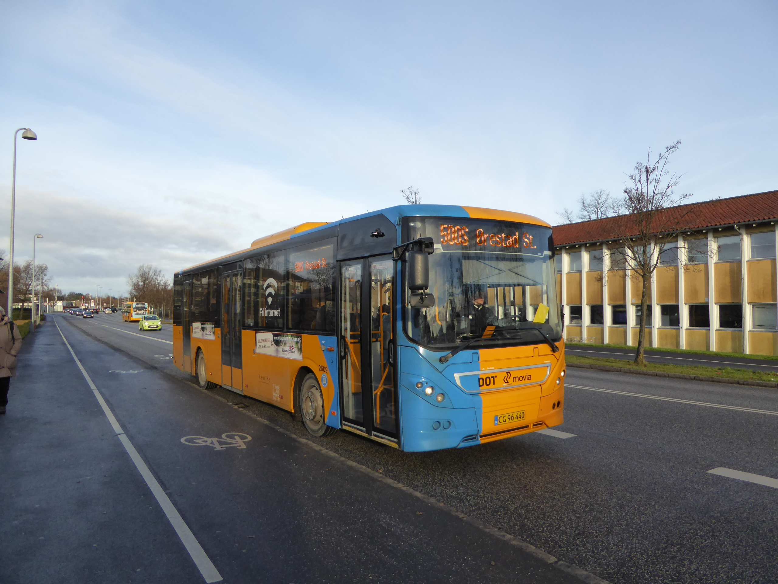 Movia bus line 500S on Frederiksborgvej at Farum Bytorv in Farum north of Copenhagen.